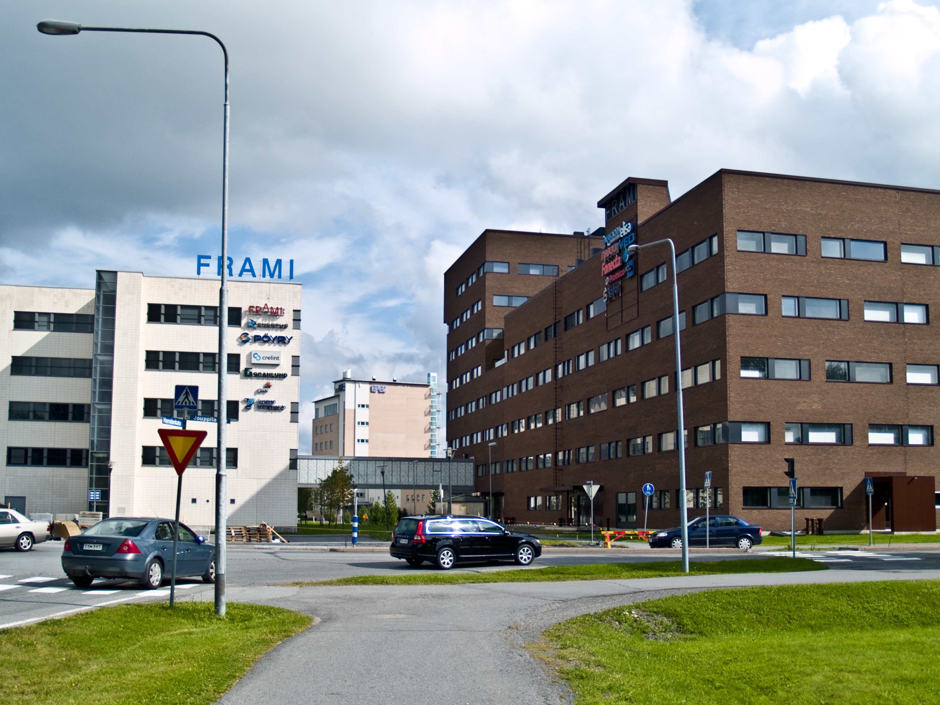 Frami buildings in Seinäjoki, housing SeAMK (Seinäjoki University of Applied Sciences) and various businesses.